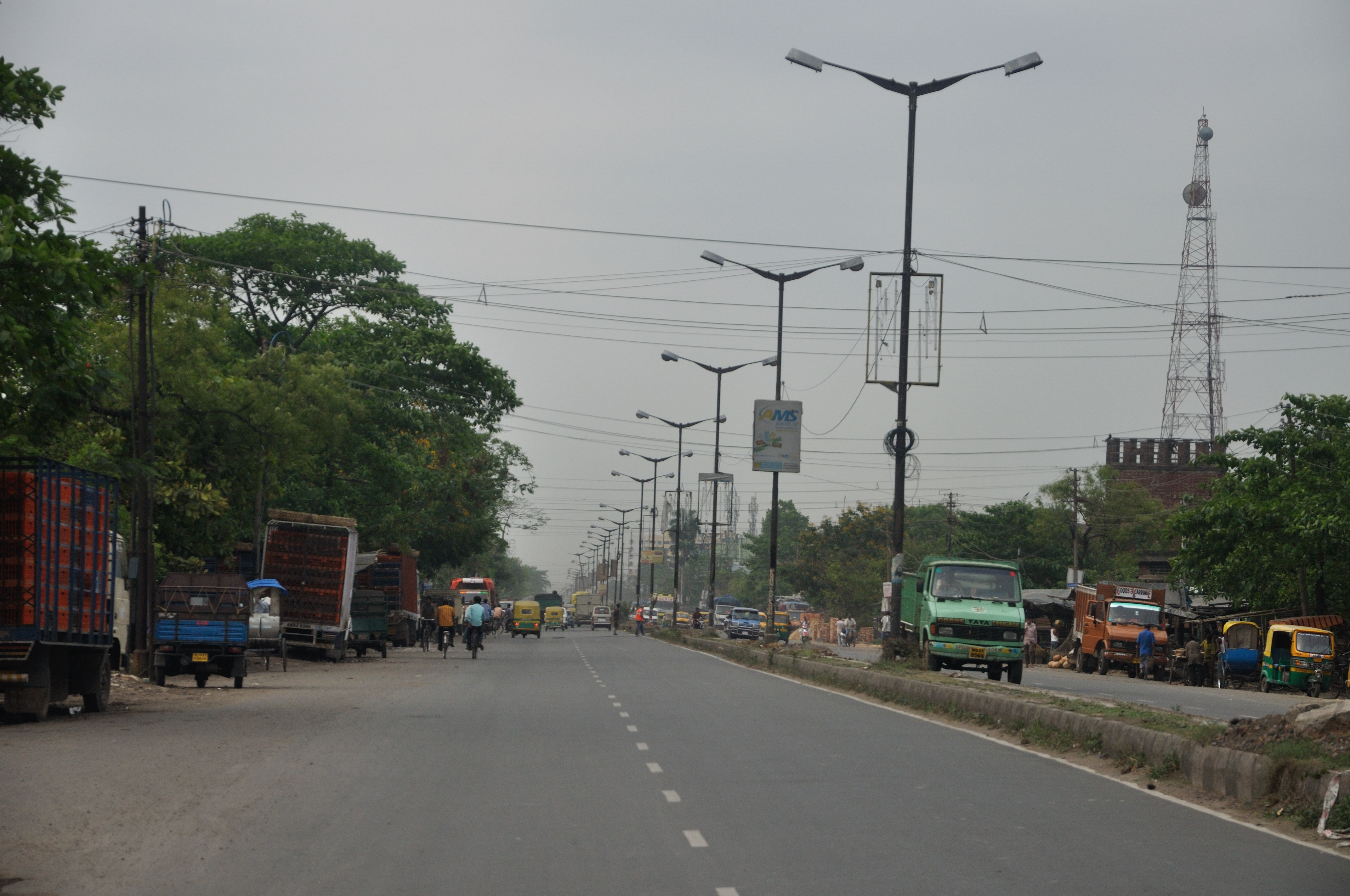 Photographed in greater Kolkata.